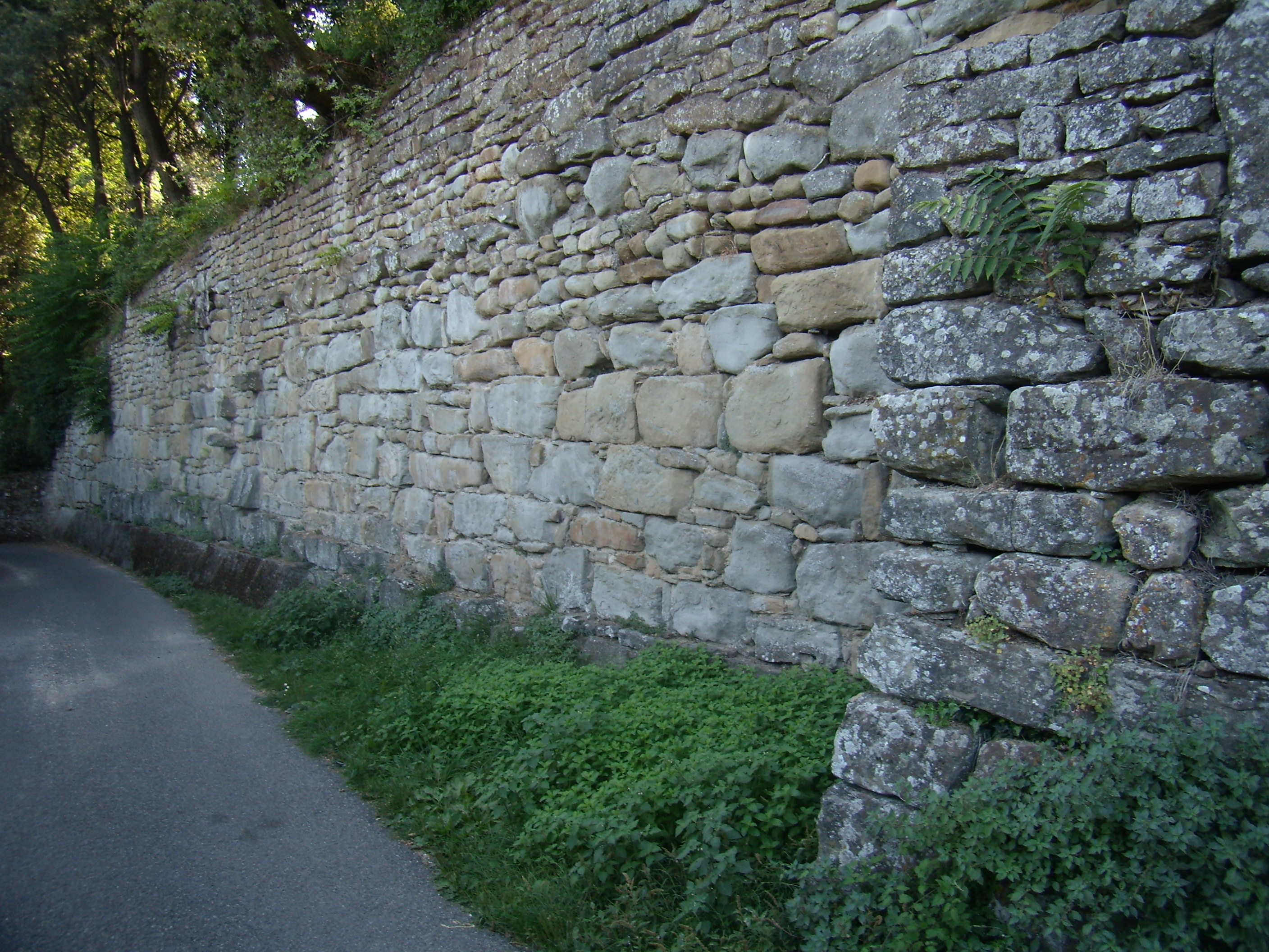 Fiesole, Etruscan town wall